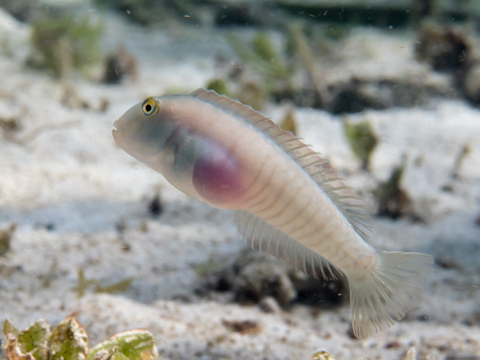 Exploration diving around the island of Rao west of Morotai in Indonesia, June 2018 - Knife razorfish (Cymolutes praetextatus)